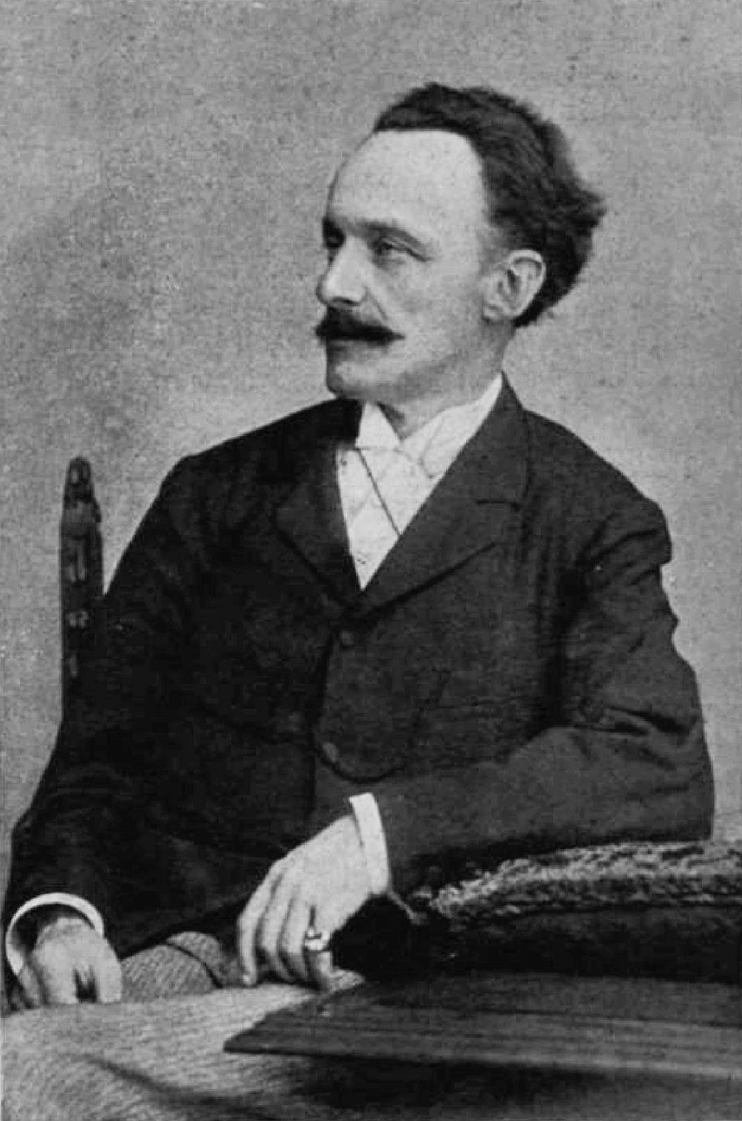 Andor Festetics (politician)